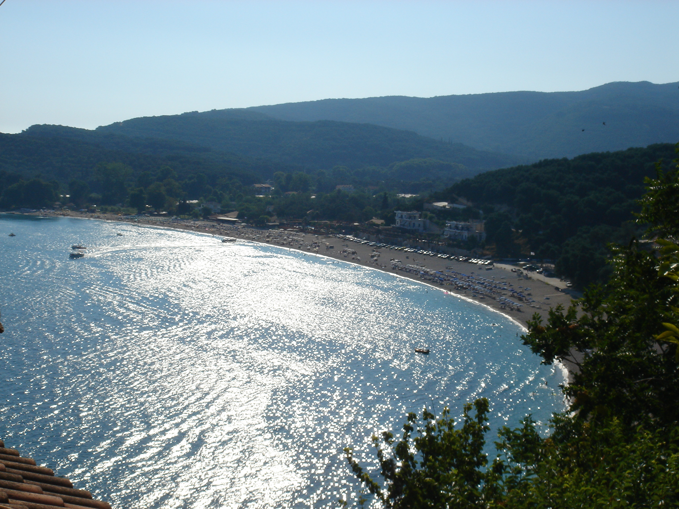 Valtos Beach on an afternoon